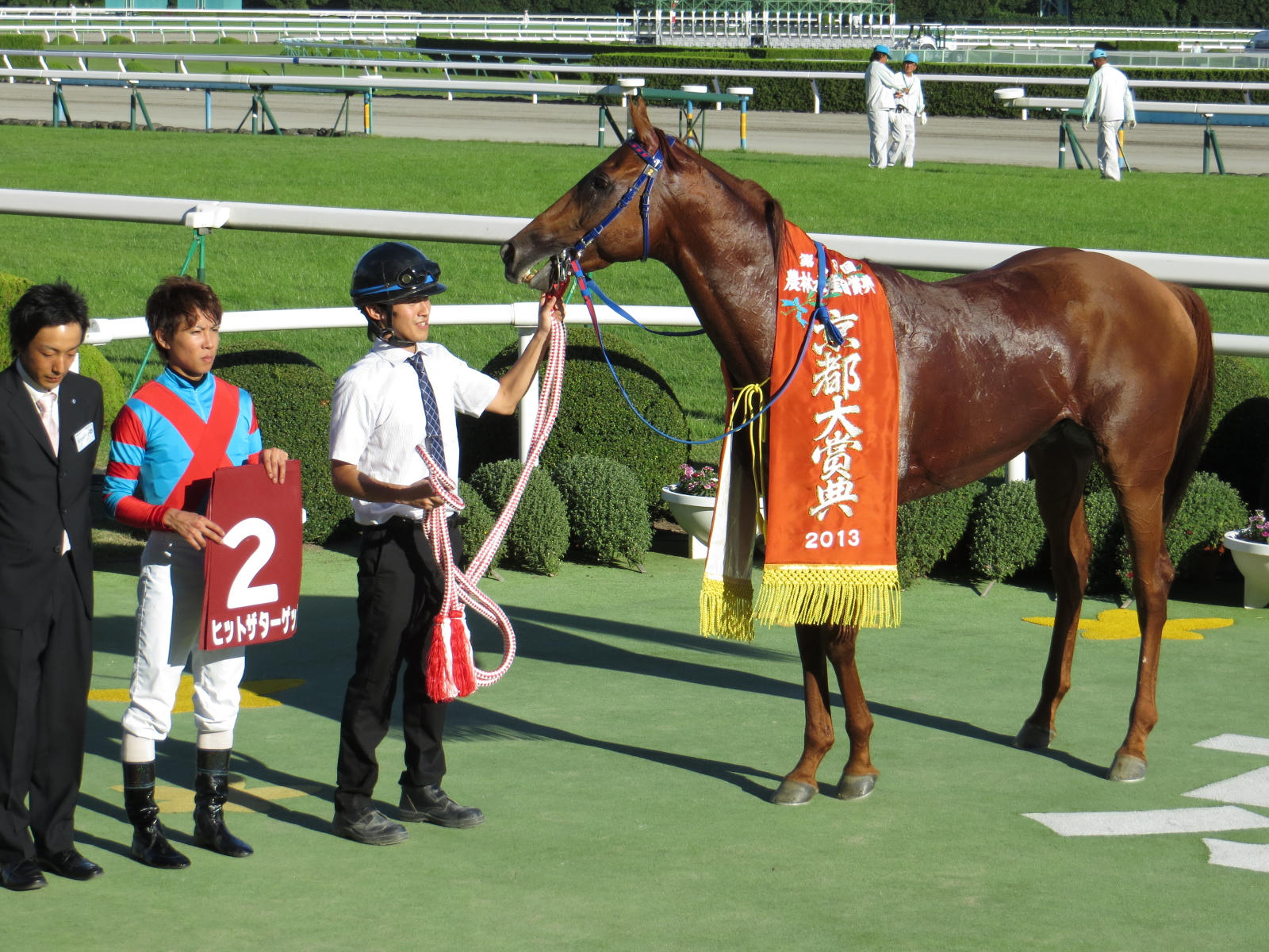 Hit the Target (Racehorse of Japan).